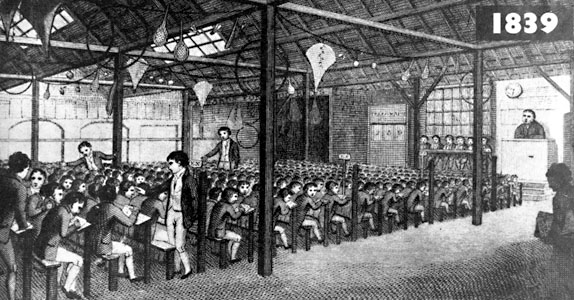 A Monitorial school. Monitors instruct the younger students, while the teacher behind on the right of the picture inspects the entire school.